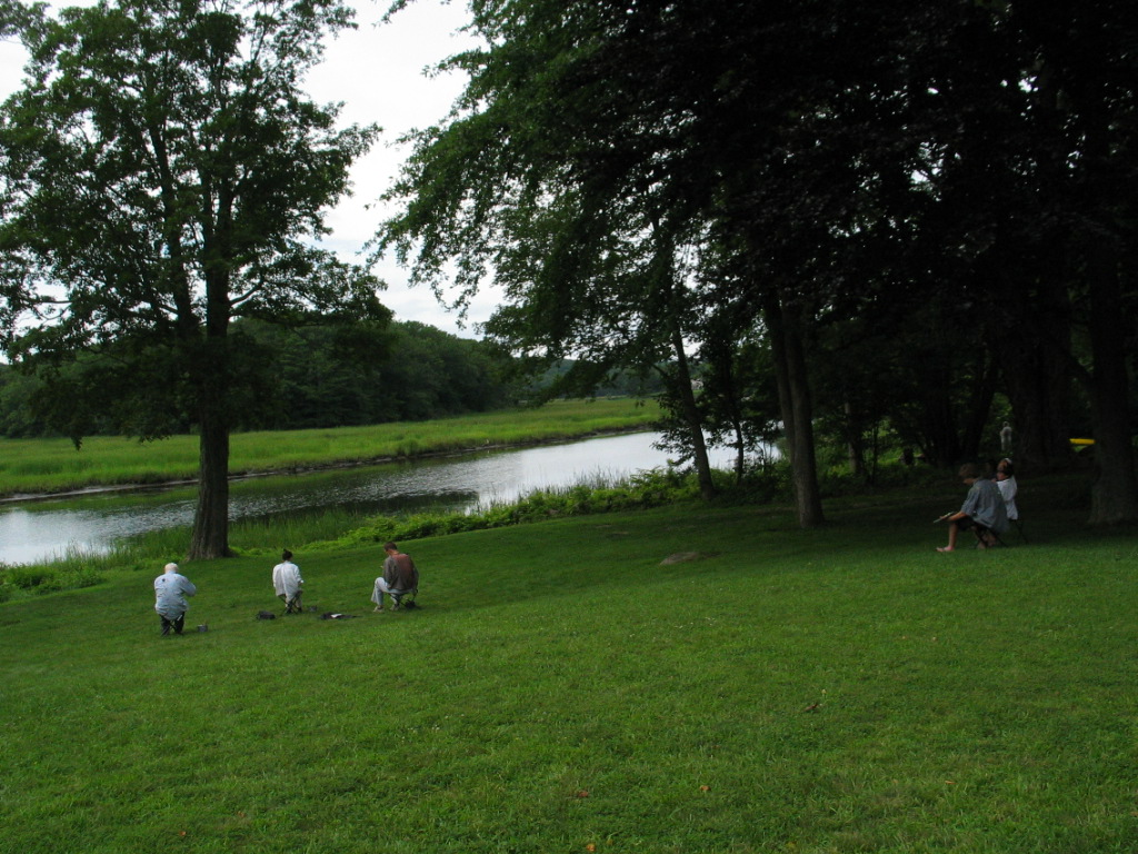 The picturesque Old Lyme, CT